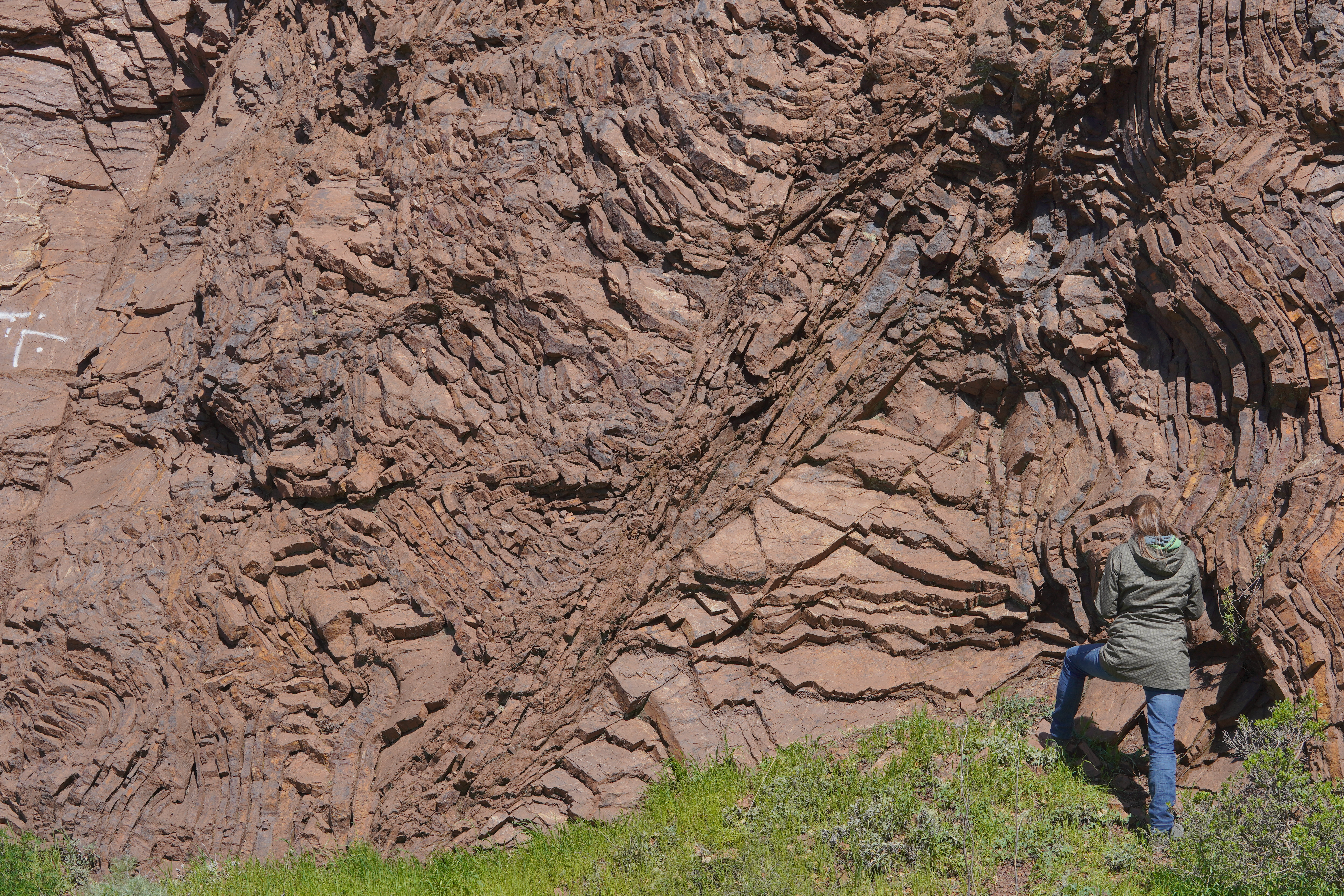 Chevron folds in ribbon cherts of the Marin Headlands, California.